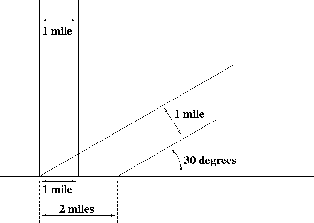 How directness of sunlight causes warmer weather and how it effects climates.